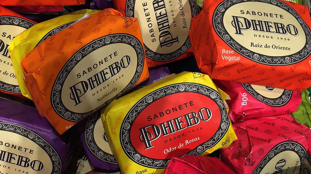 Sabonetes Tradicionais